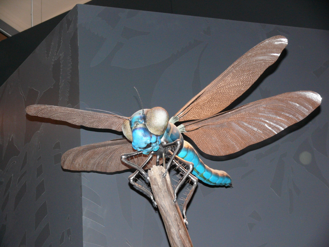 Meganeura, model of a giant draconfly, carboniferous, Museum of Natural History, Berlin